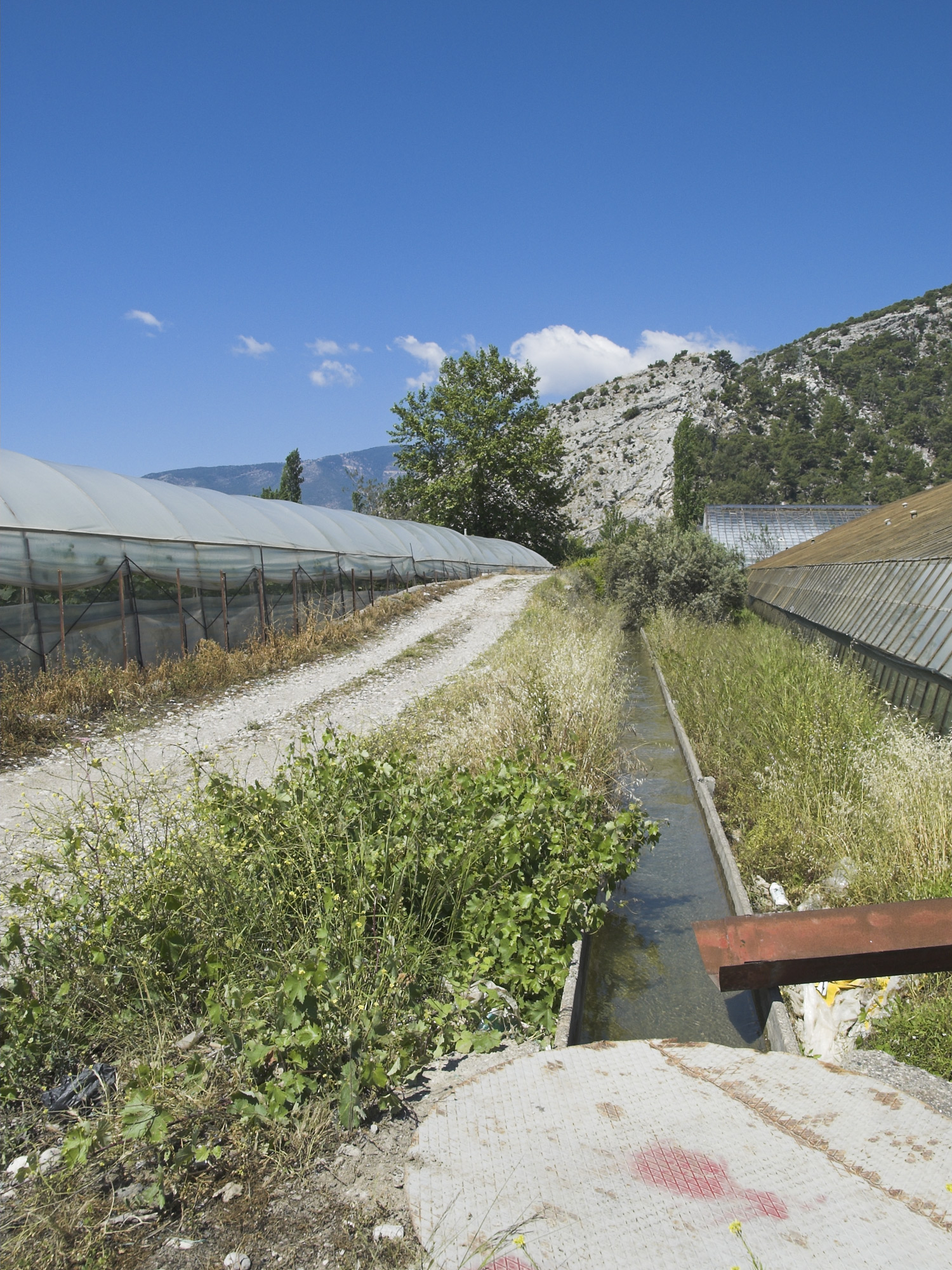 The Roman Bridge near Limyra, Lycia, Turkey. Eastern bridge head with recent water conduit. The late antique structure is one of the oldest segmental arch bridges in the world. The 360 m long bridge crosses on 28 arches the Alakır Çayı, 26 of which being segmental arches with an average span to rise ratio of 5.3 to 1. Today, the structure is buried up to the vaults by river sedimentation.